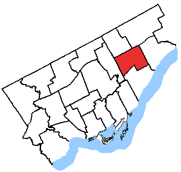 Map of the Scarborough Centre electoral district. Based on Earl Andrew's :Image:Ct04.PNG and :Image:St04.PNG, created by SimonP.